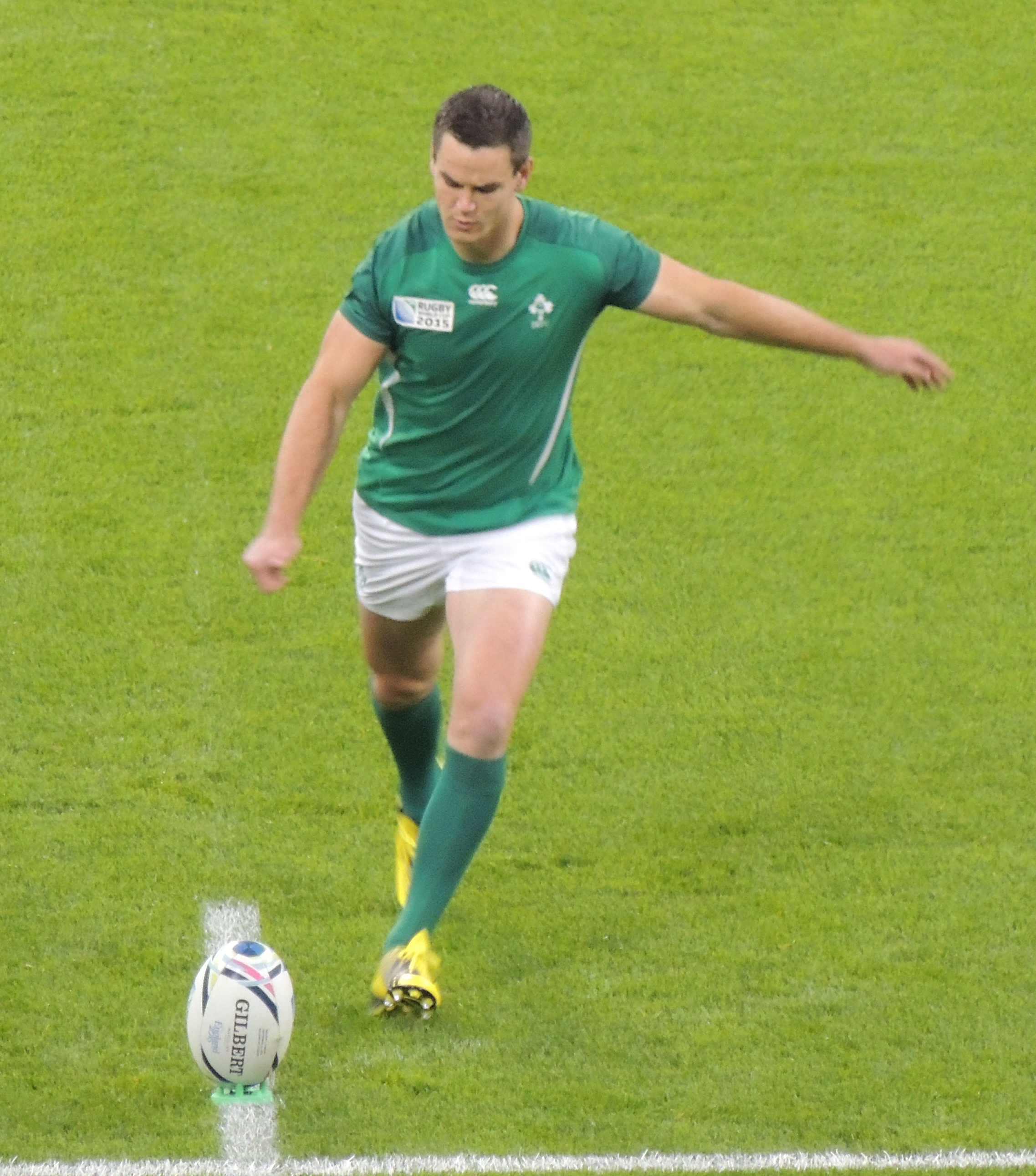 Irish rugby union player Jonathan Sexton playing in 2015 Rugby World Cup game Ireland vs Canada at Millennium Stadium in Cardiff.